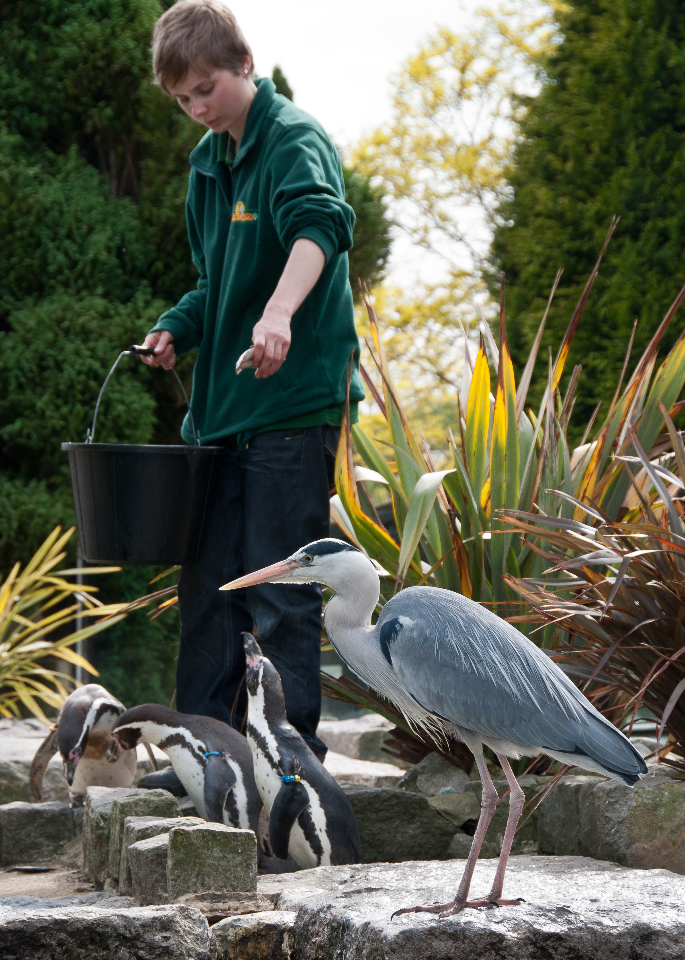 A zoo keeper feeding Humboldt Penguins at Birdworld, Farnham, Surrey, England. A Grey Heron (probably a wild local bird) is also seeking some of the food.